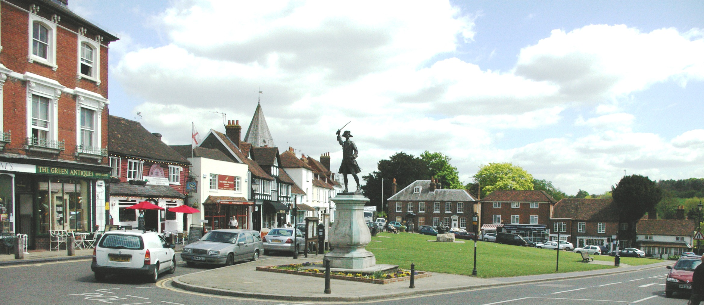 Westerham, Kent, with the statue of General Wolfe in the foreground. Digital photo by me, Ross Burgess, 6 May 2005.